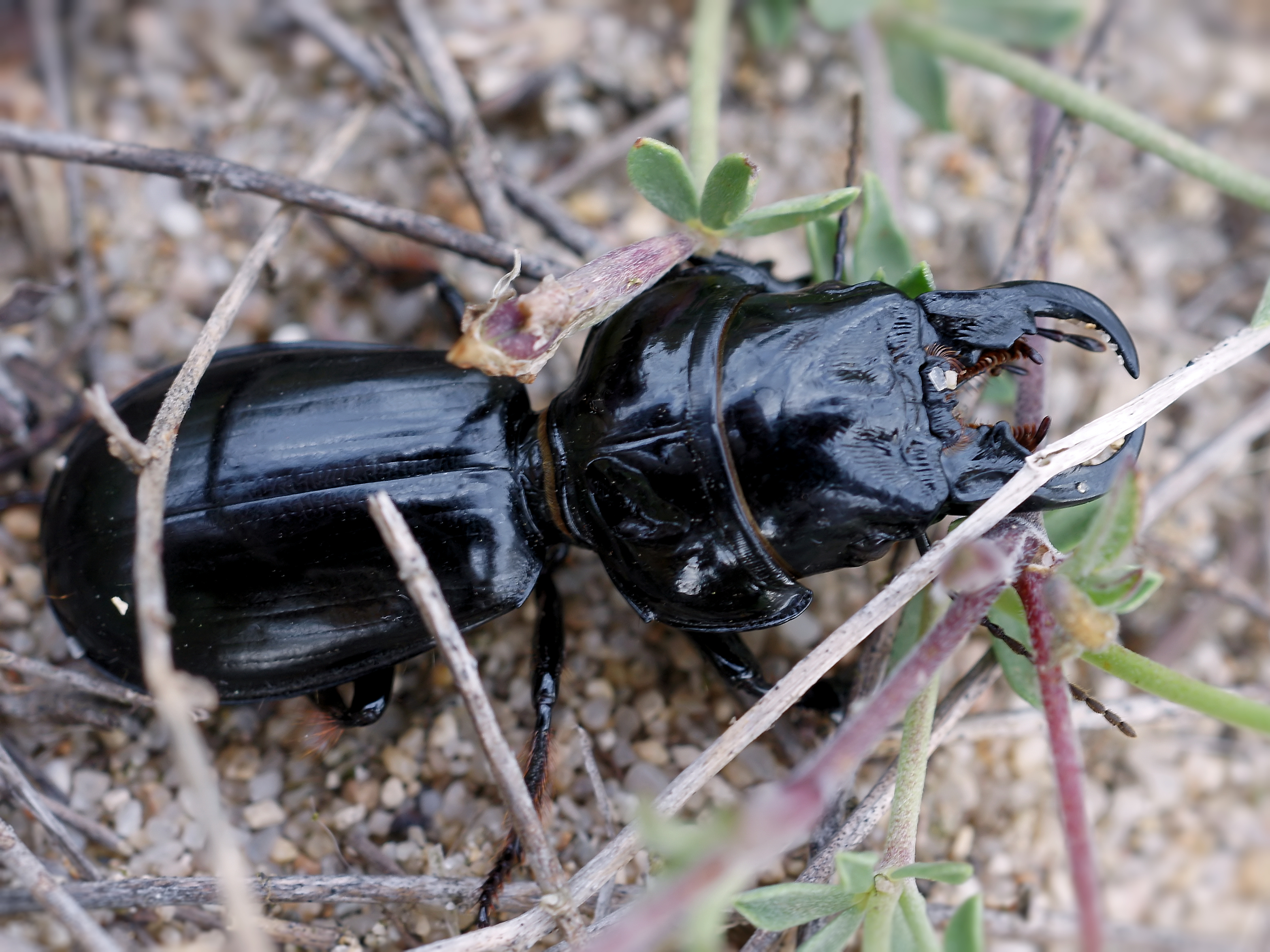 A Ground beetle close to Torregrande, Sardinia, Italy